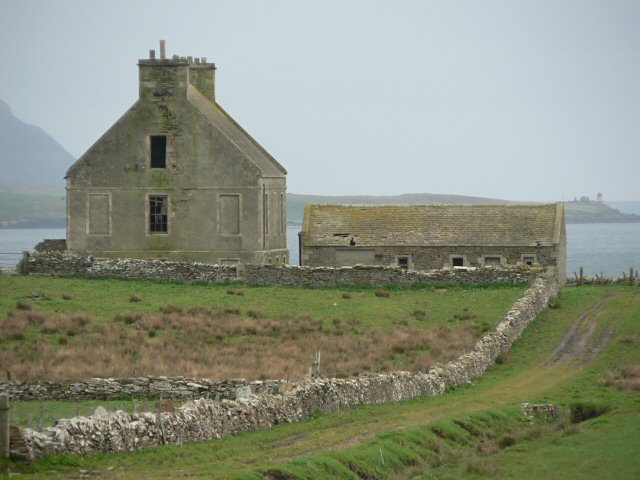 The Hall of Clestrain, Mainland, Orkney. John Rae's birthplace is as neglected as his reputation. Ken McGoogan's excellent biography Fatal Passage describes how his adoption of Inuit skills, and his trust in their report of the fate of the Franklin expedition, lead to his lack of recognition by Victorian society.